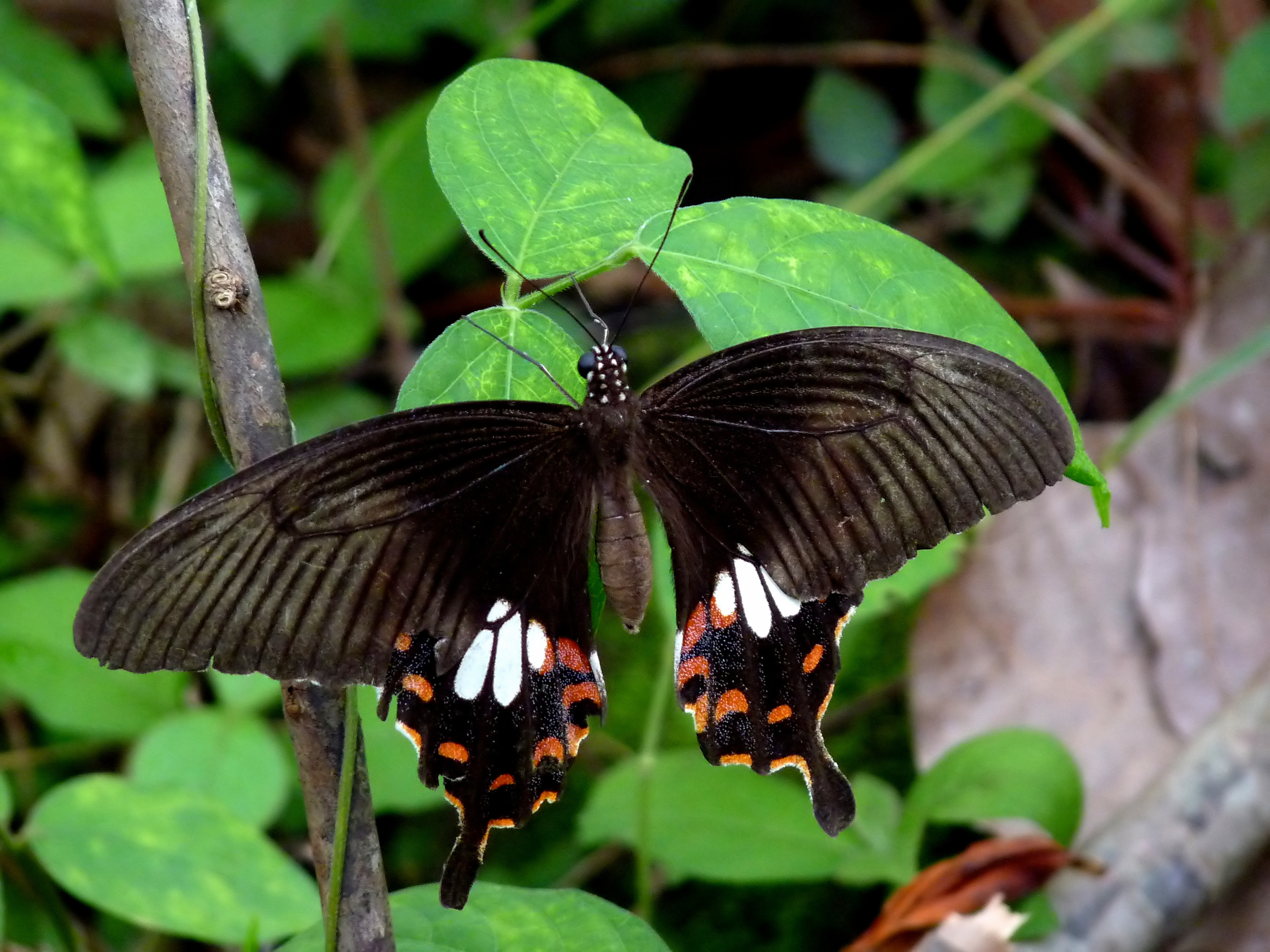 Common Mormon (Papilio polytes) Female, form stichius The Common Mormon (Papilio polytes) is a common species of swallowtail butterfly widely distributed across Asia. This butterfly is known for the mimicry displayed by the numerous forms of its females which mimic inedible Red-bodied Swallowtails, such as the Common Rose and the Crimson Rose. This female form of the Common Mormon mimics the Common Rose (Atrophaneura aristolochiae) very closely. This is the commonest form wherever the Common Rose flies. Taken at Kadavoor, Kerala, India.